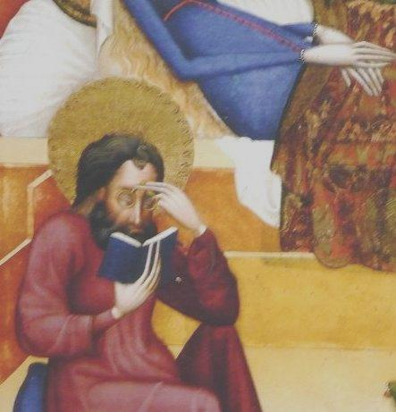 detaildepicting one of the Twelve Apostles.